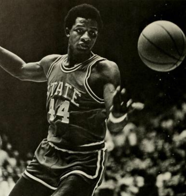 North Carolina State University basketball player David Thompson from the 1974 “Agromeck” yearbook.